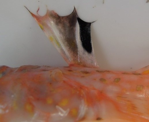 This picture shows the dorsal fin of a phaeton dragonet which has the typical black blotch to identify the species